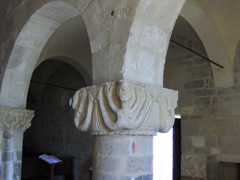 capital of a column, interior of San Secondo, Cortazzone, Piedmont 4